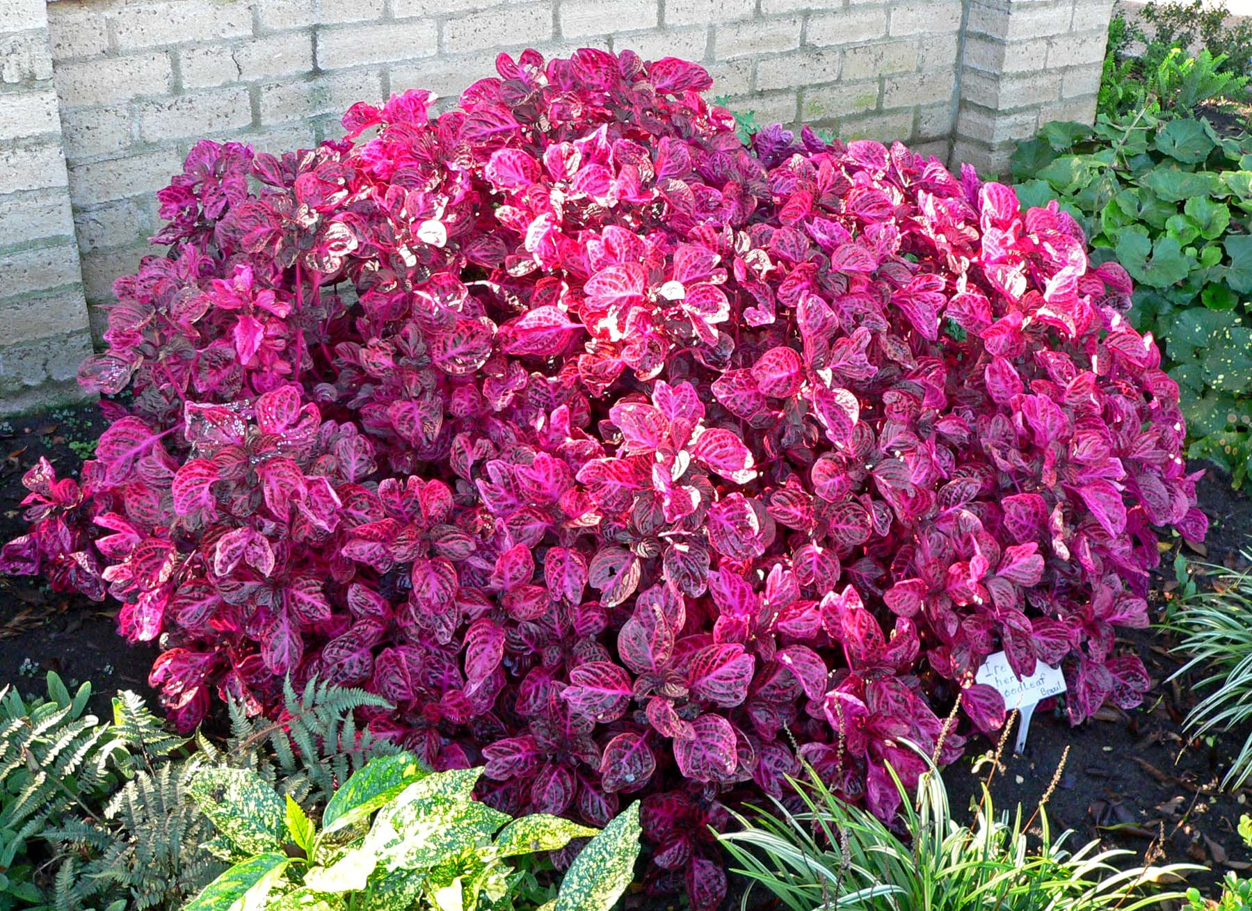 Photo of Iresine herbstii at Balboa Park